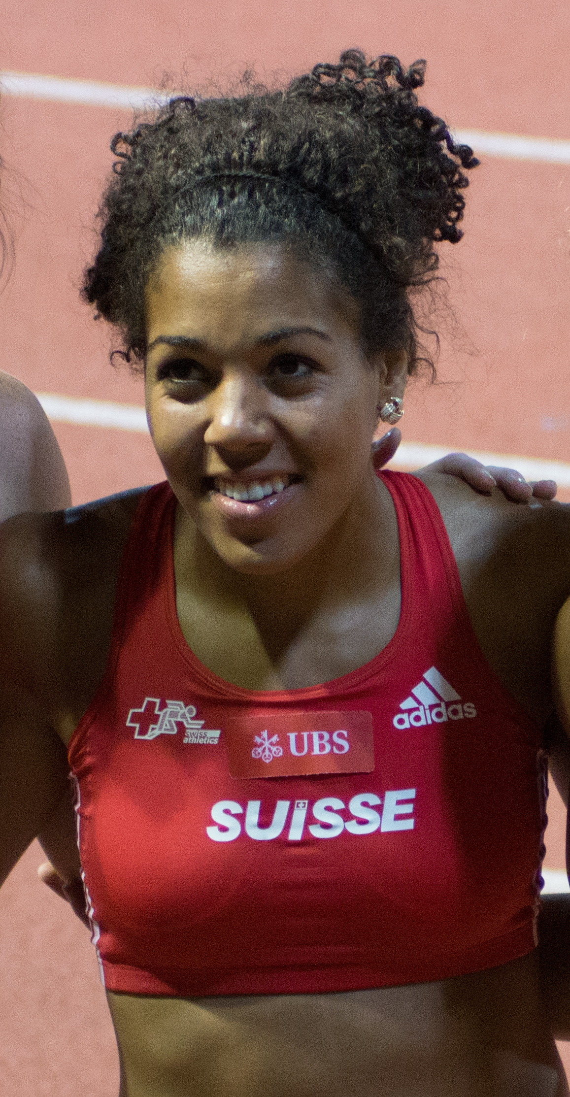 The making of this document was supported by Wikimedia CH. (Submit your project!) For all the files concerned, please see the category Supported by Wikimedia CH. Athletissima 2012 : Mujinga Kambundji